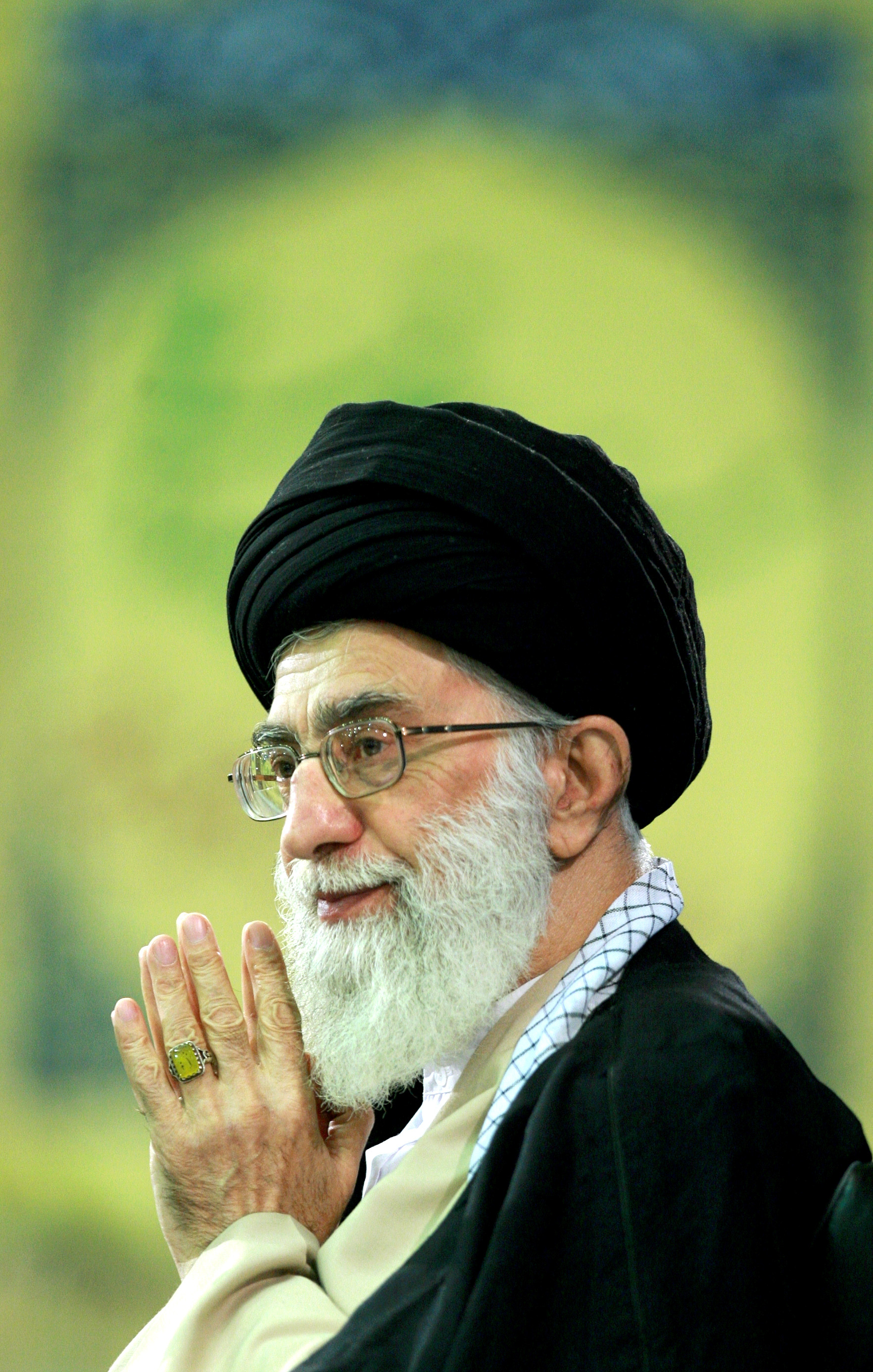 Grand Ayatollah Seyyed Ali Khamenei.